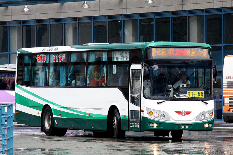 SanchungBus 188-FU Hino RK8JRSA